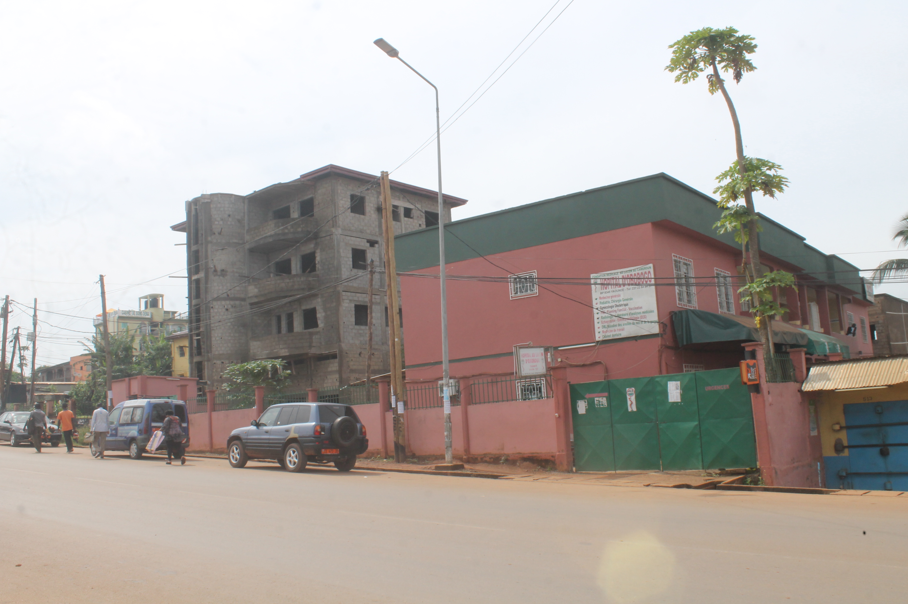 District hospital Obobogo, Yaounde III